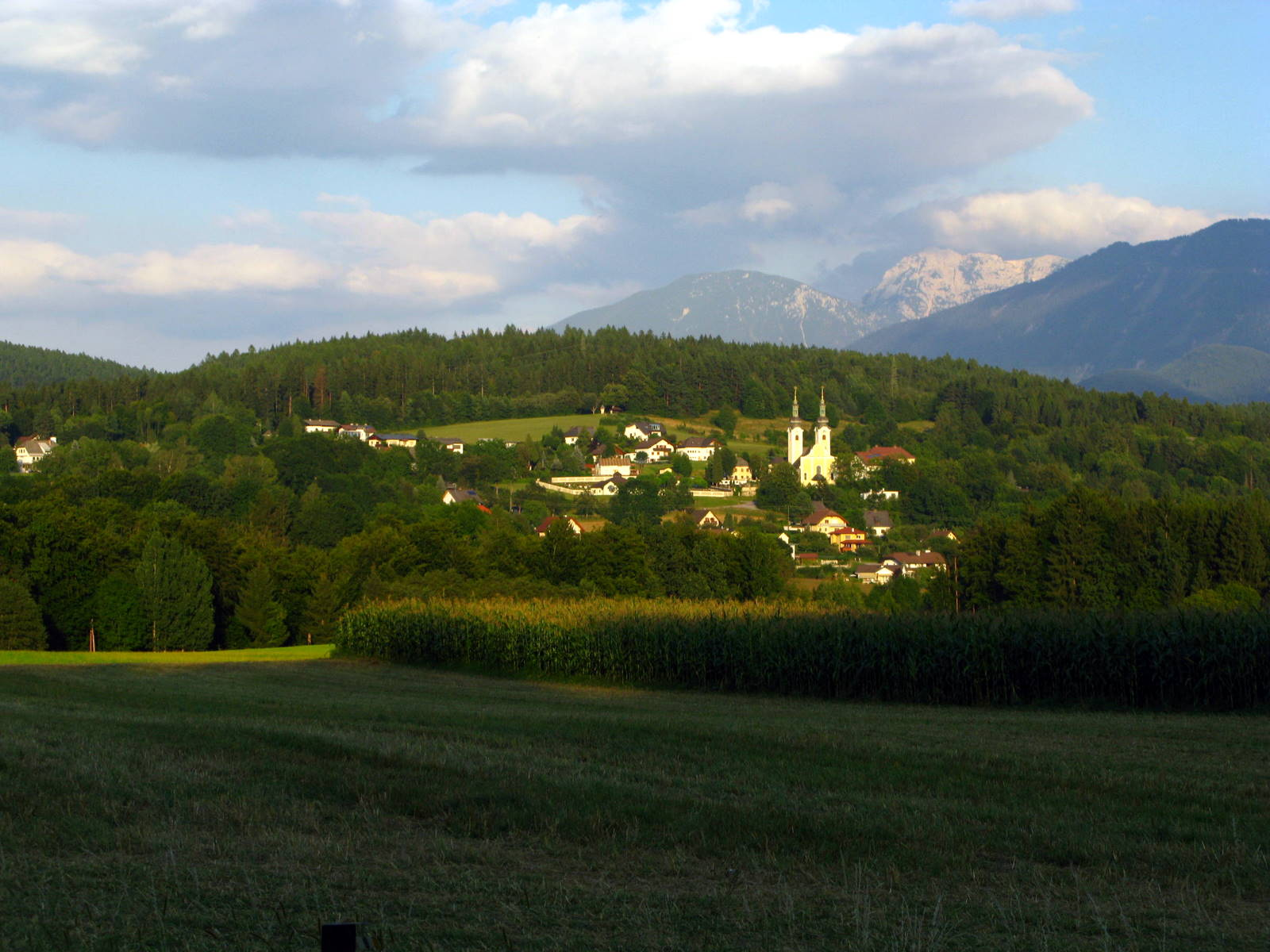 Maria Rain, district Klagenfurt-Land near Klagenfurt in Carinthia / Austria / European Union.